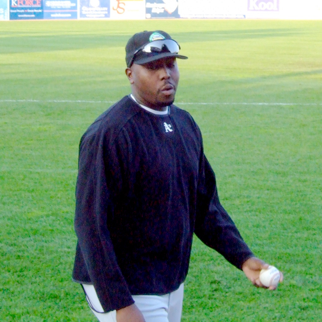 Garvin Alston, Kane County, West Michigan, 2006-09-15.